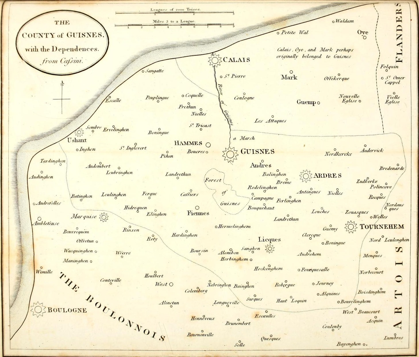 Map of the old County of Guînes, now part of northern France. Marked "after Cassini".